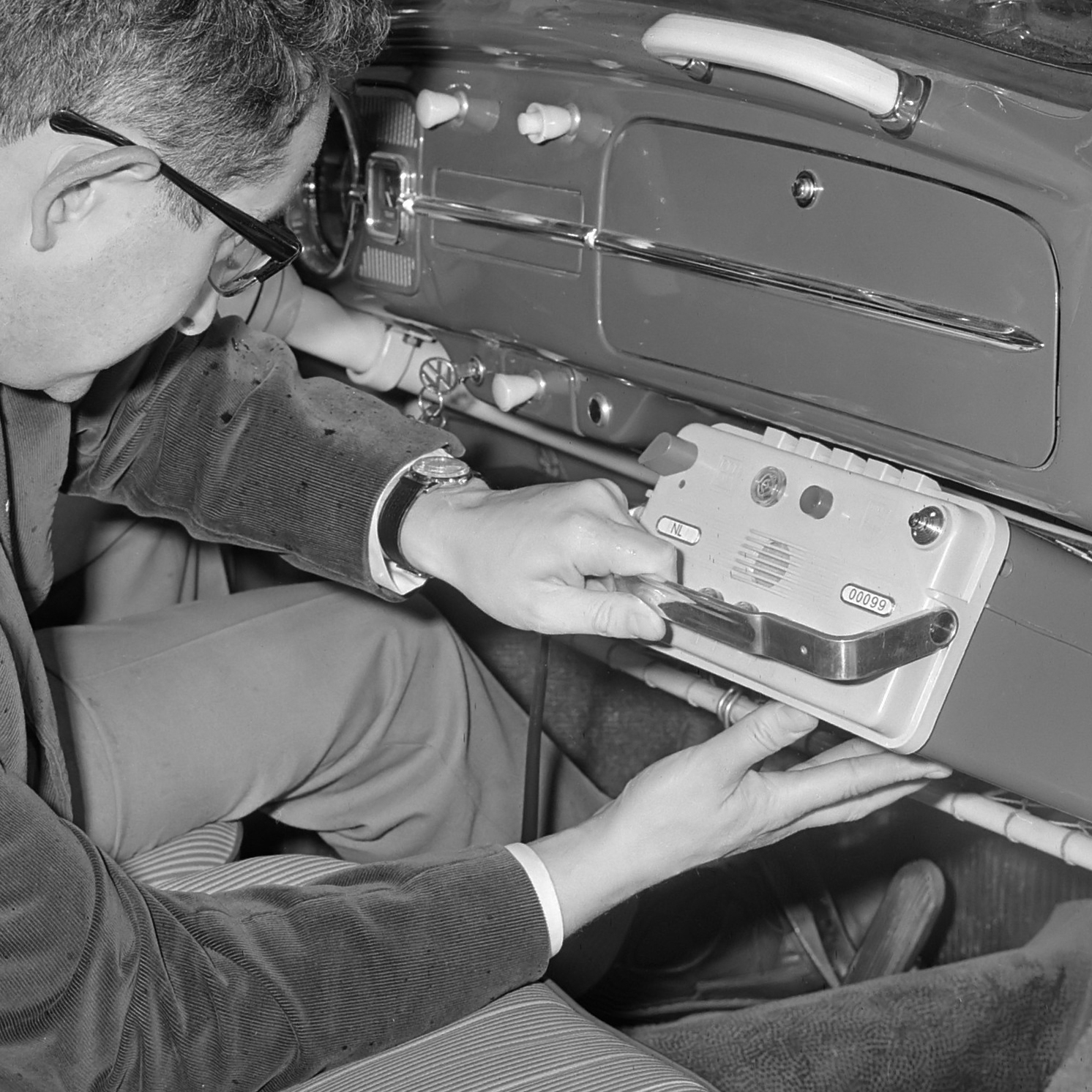 Semafoon officieel (oproepsysteem PTT), dr. R. J. Meijer heeft de semafoon 1,5 jaar op proef gehad 17 september 1964